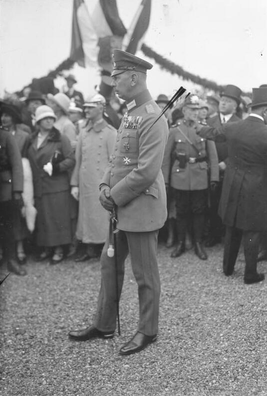 Lieutenant Colonel von Hindenburg, the president's son, after his accident while riding in the Tiergarten (he suffered an accident that broke several ribs). He had to stay in bed for several weeks.